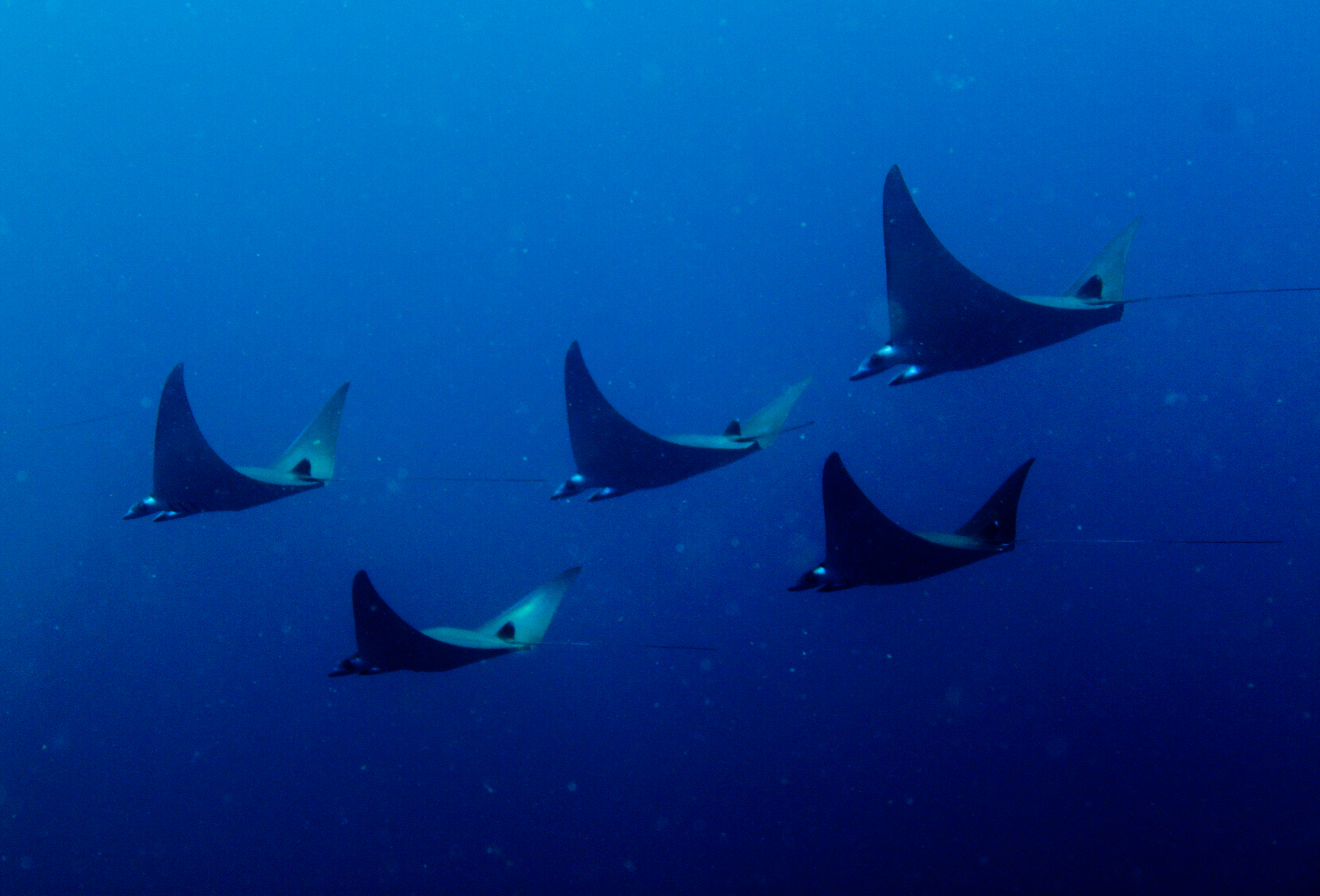 Mobula Rays at Aussie Point, Munda, Solomon Islands